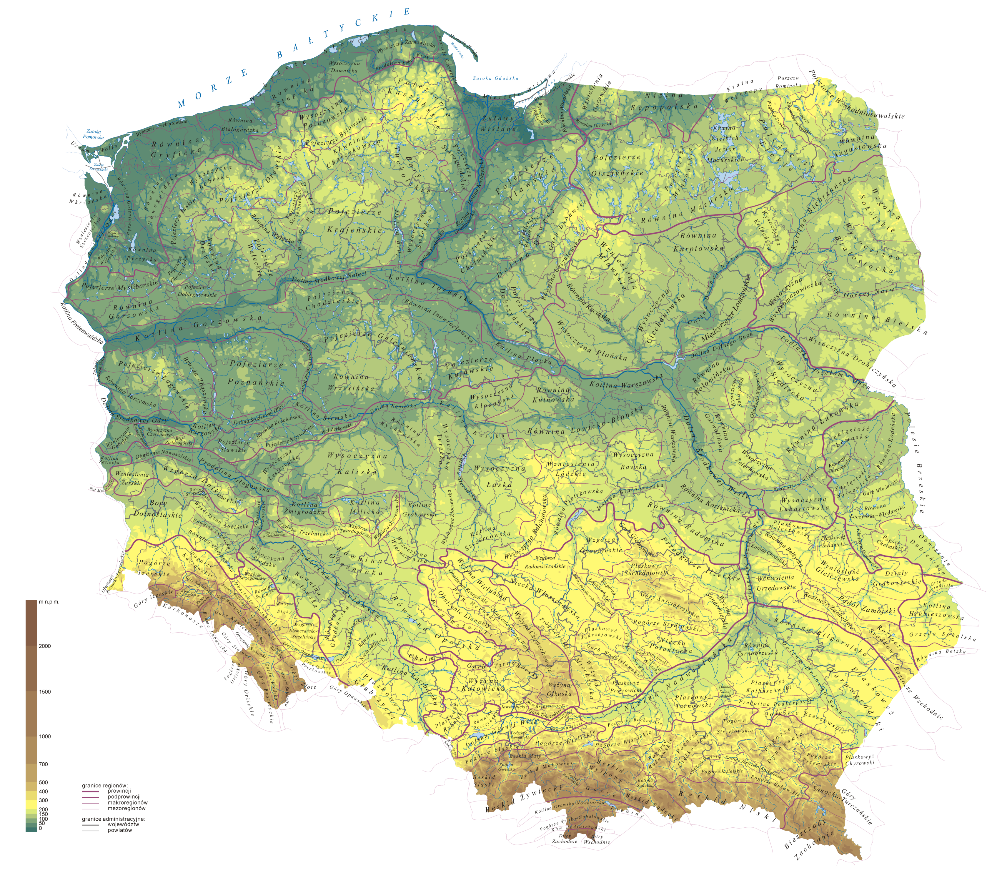 Poland: Physico-geographical mezoregions of Poland overlaid with the topographic map